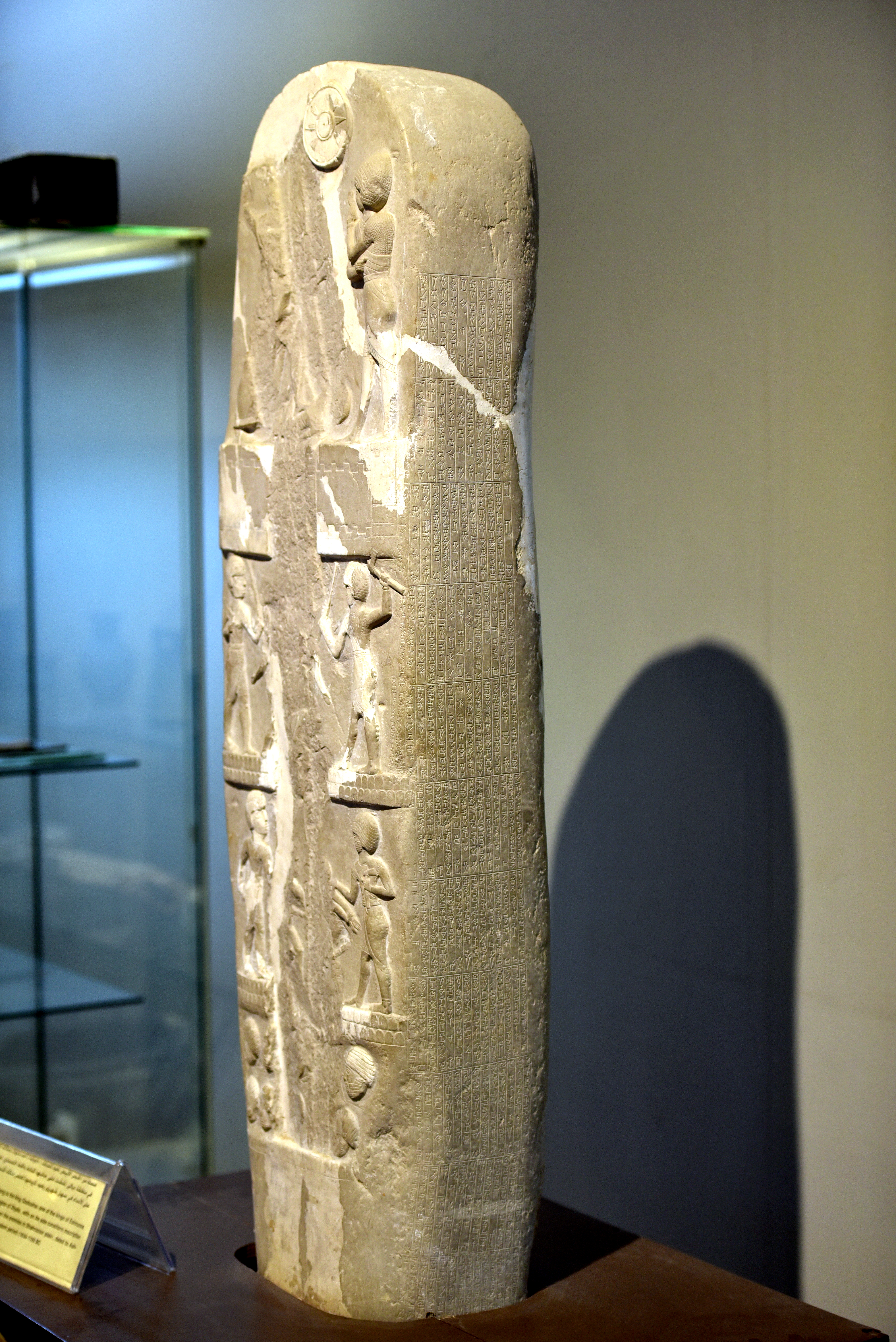 Stele of Dadusha, king of Eshnunna, c. 1800 BCE. From Eshnunna, in modern-day Diyala Governorate, Iraq. The Iraq Museum in Baghdad, Old-Babylonian Gallery.